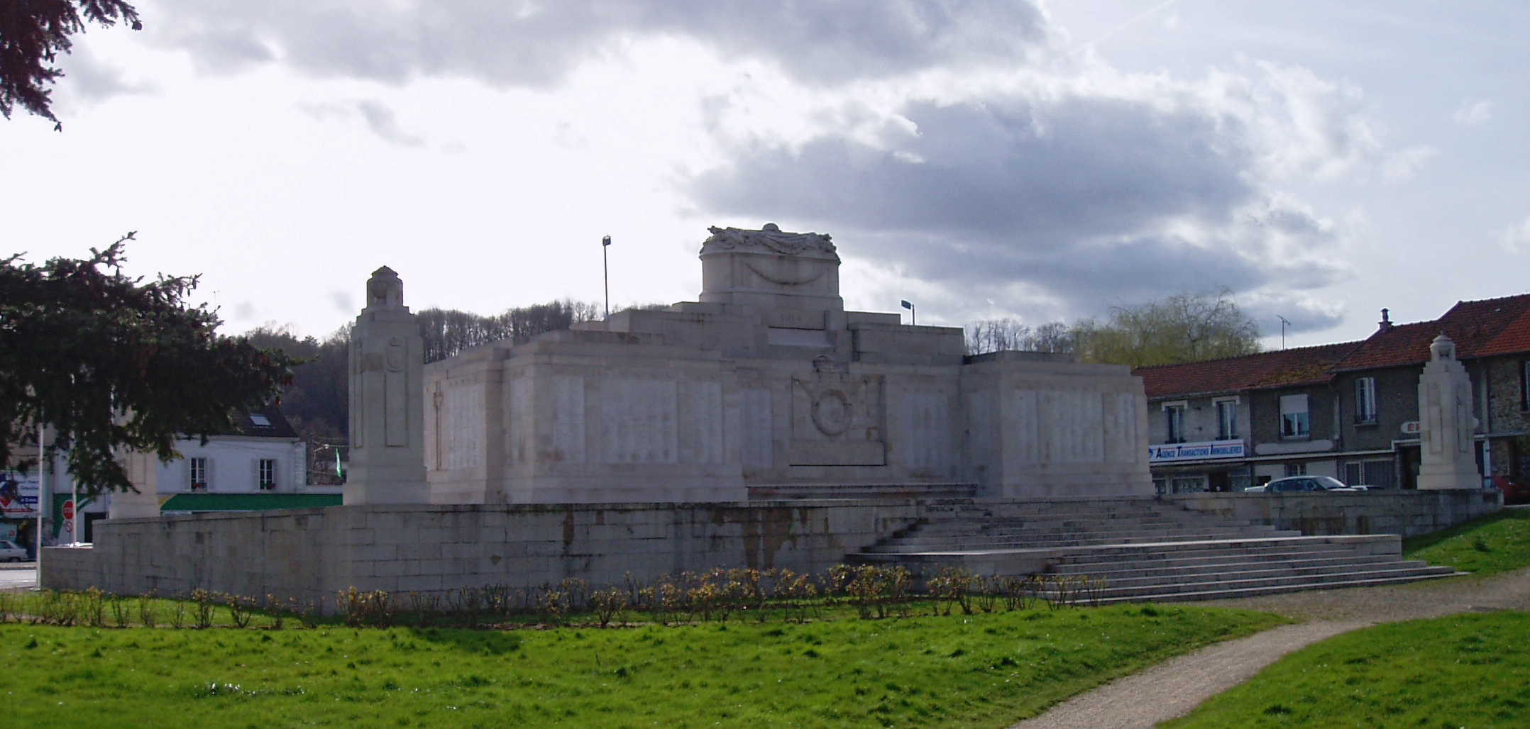 La Ferte-sous-Jouarre memorial to the missing dead of World War I. Photographed in 2007.